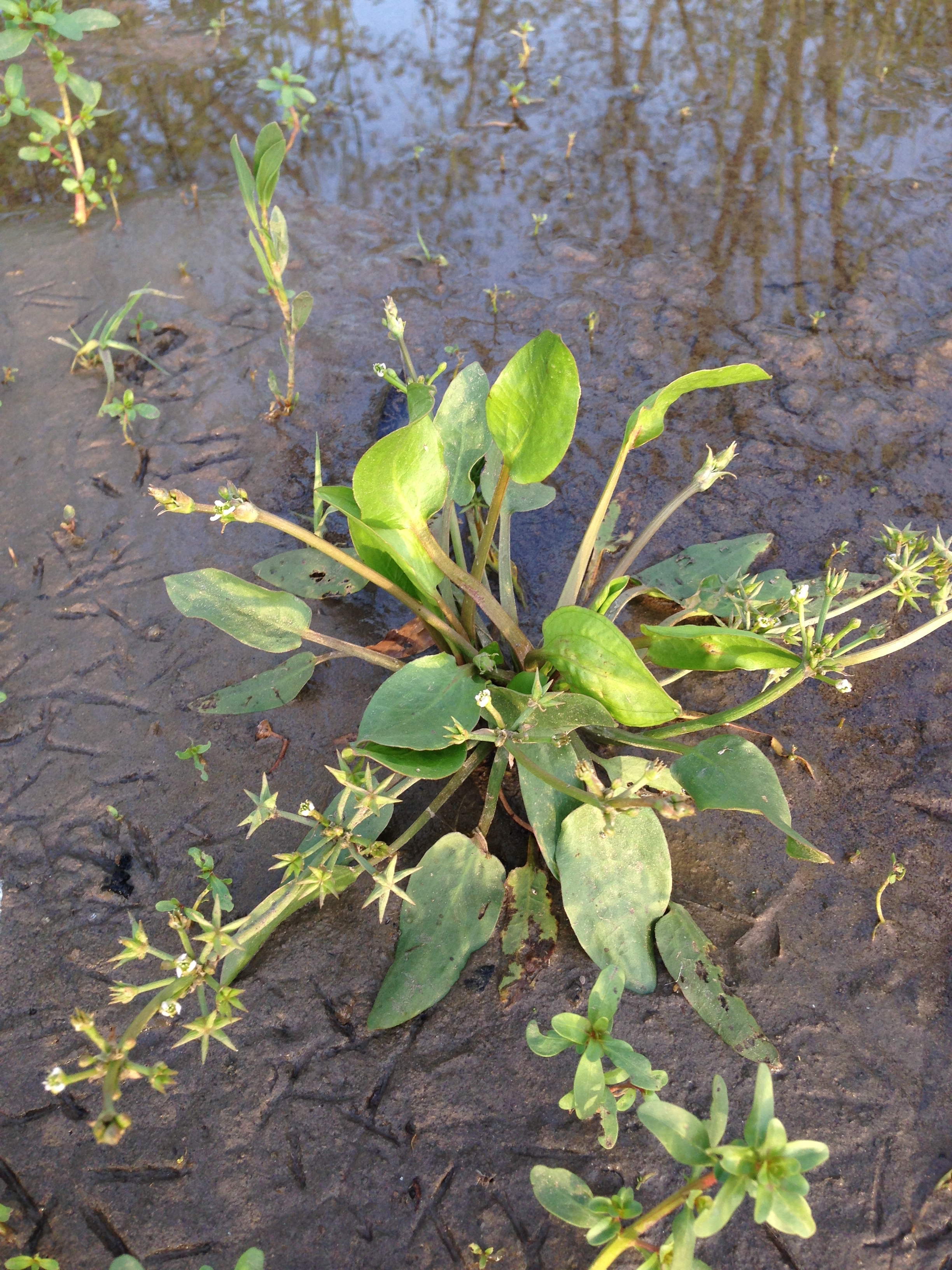 Damasonium alisma in Israel